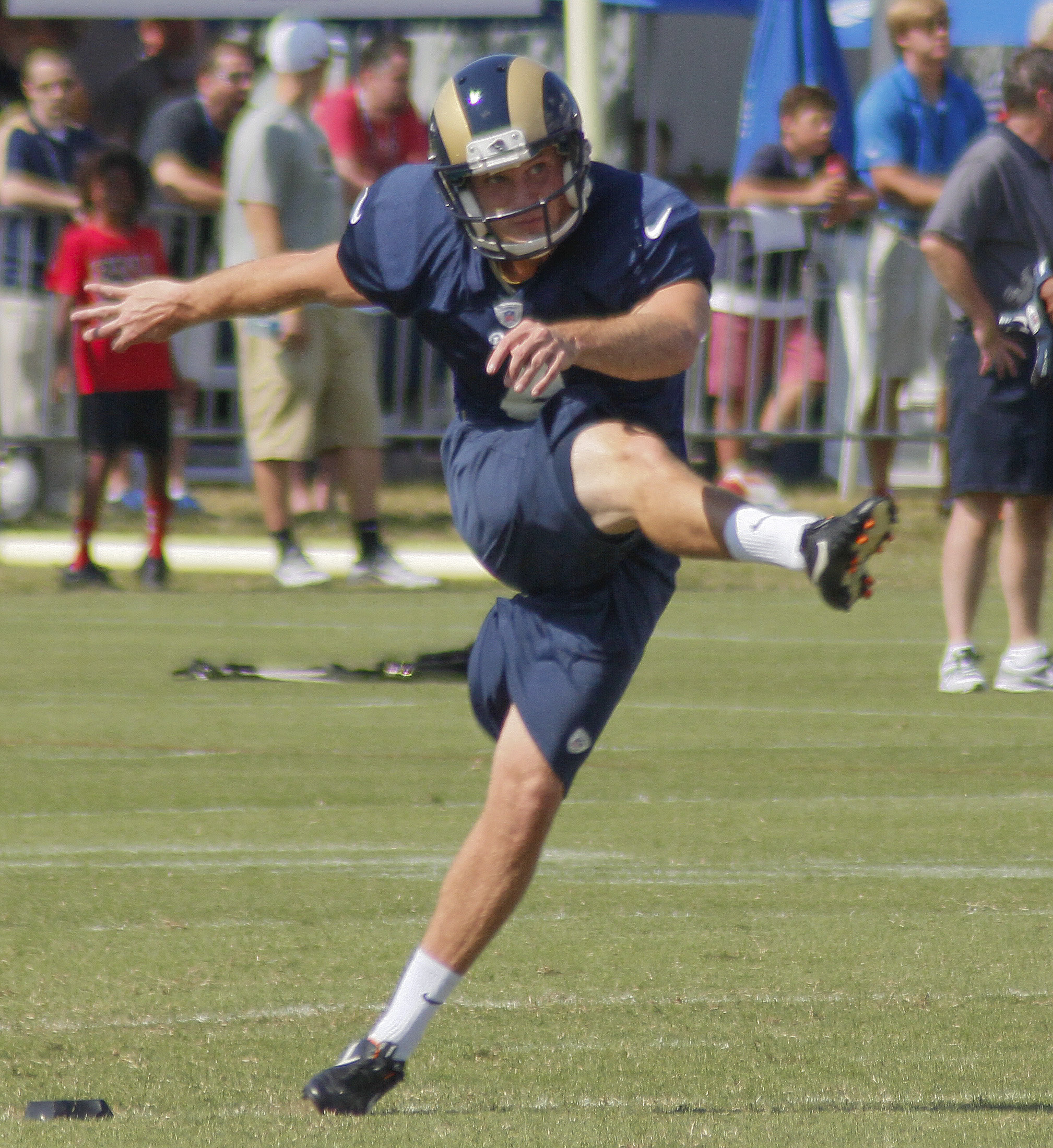 Rams kicker Greg Zuerlein.